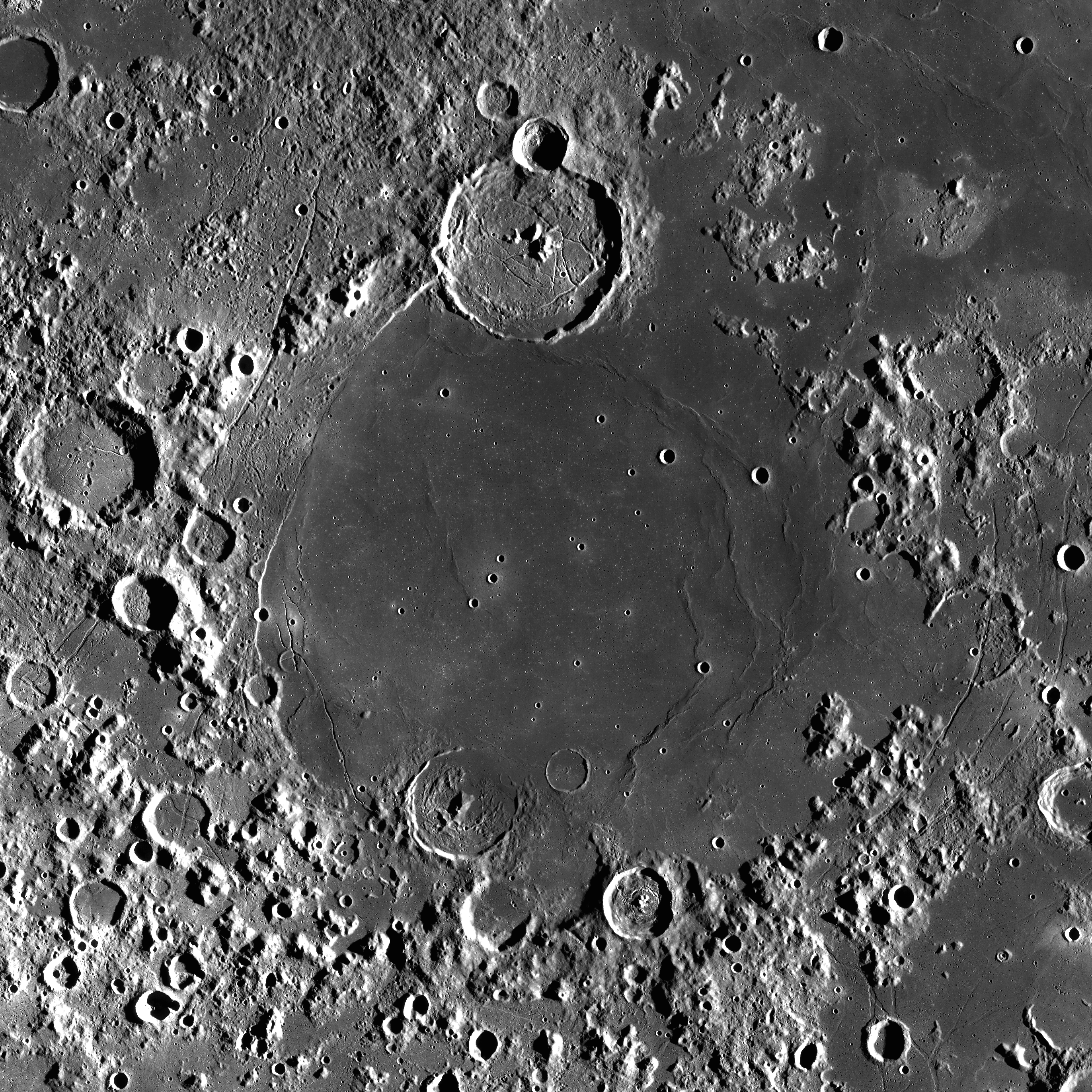 Mare Humorum on the Moon. Mosaic of photos by Lunar Reconnaissance Orbiter, made with Wide Angle Camera. Size of the image is 650×650 km, north is up.